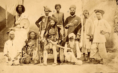 A post card from the 19th century showing the rich mix of ethnic and religious types in the Indian subcontinent 1. Ethiopid; 2. Maratha 3. unknown; 4. Zoroastrian; 5. Jew; 6. Chinese; 7. unknown; 8. unknown; 9. Arab (sitting in the middle on a chair); 10. Sikh